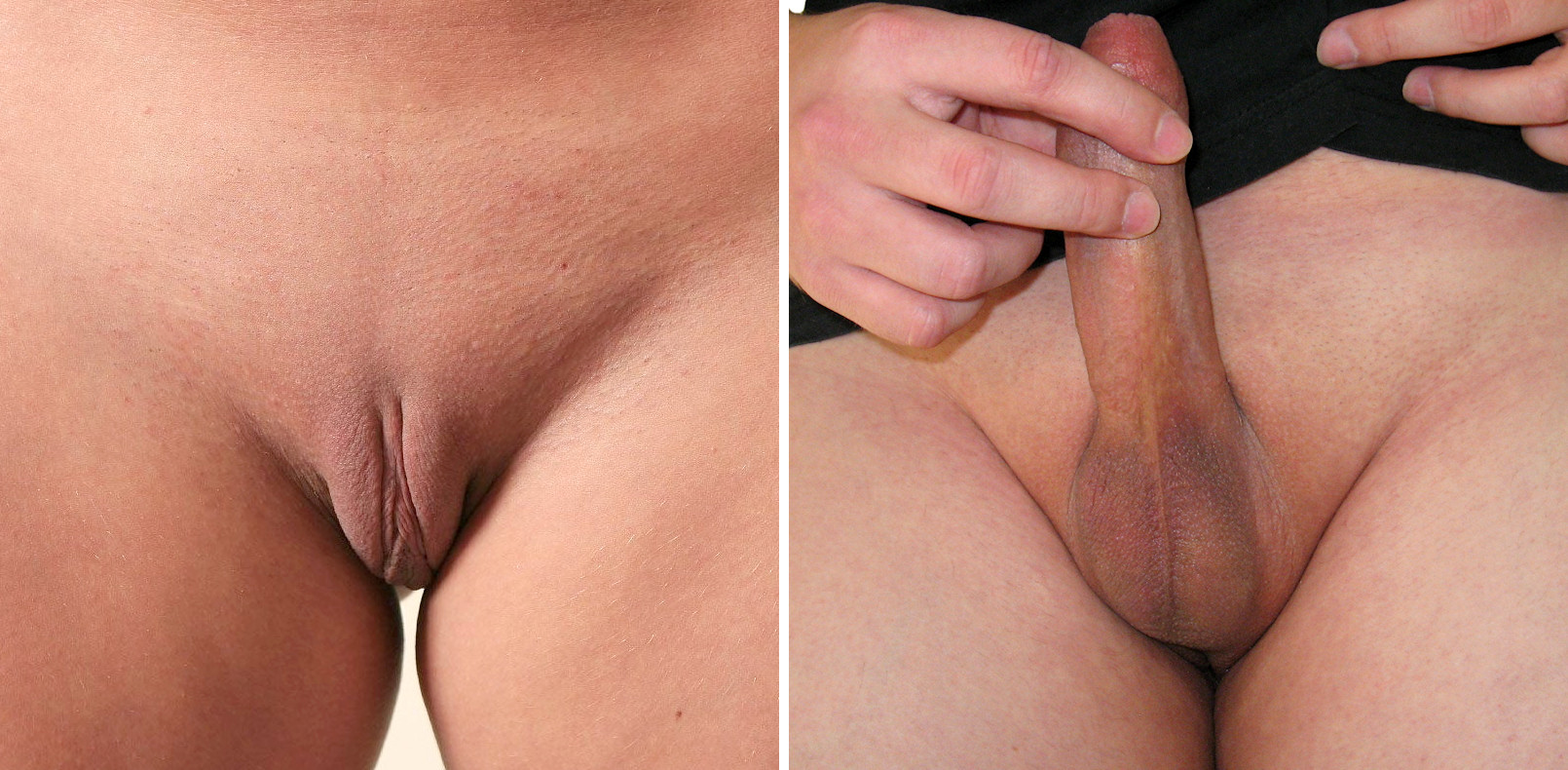 Comparison of female's vulva and male's scrotum. Vulva and scrotum are corresponding body parts in females and males as well as clitoris and penis. Original image of the female genitals